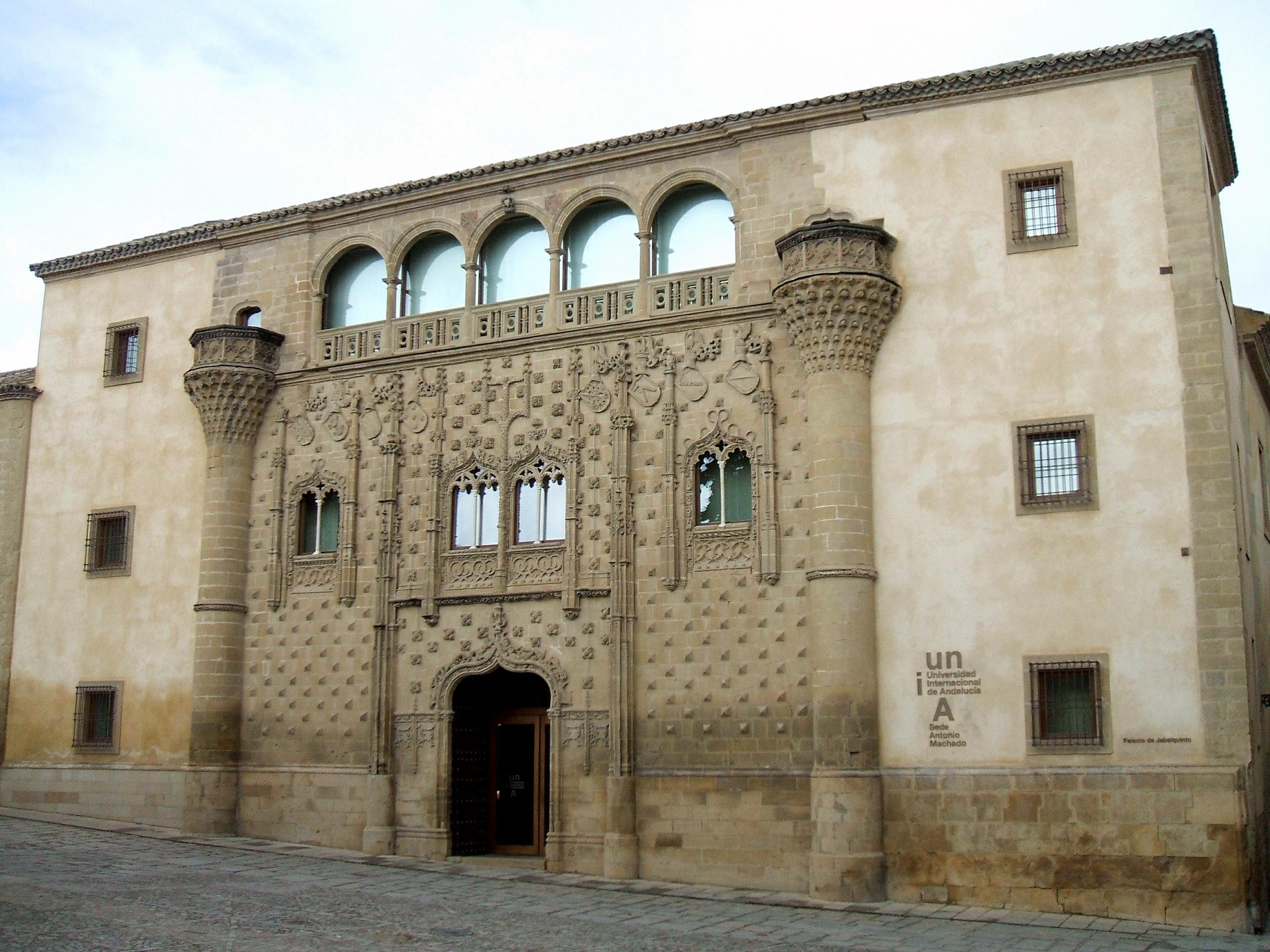 Palacio de Jabalquinto, Baeza (Jaén, Andalucía, España)